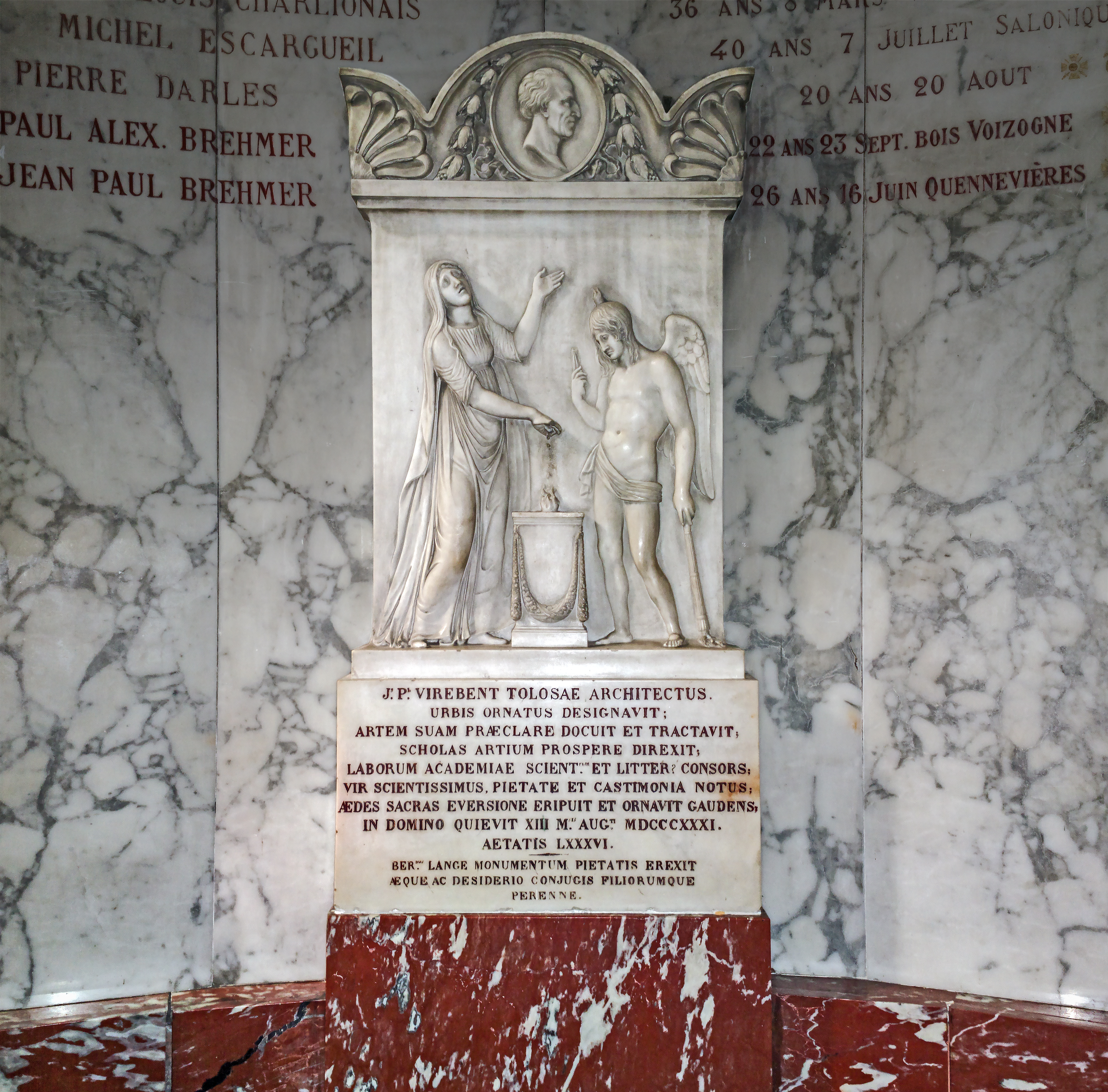 Church Saint-Jérôme from Toulouse. Jacques-Pascal Virebent's cenotaph by Beranrd Lange.